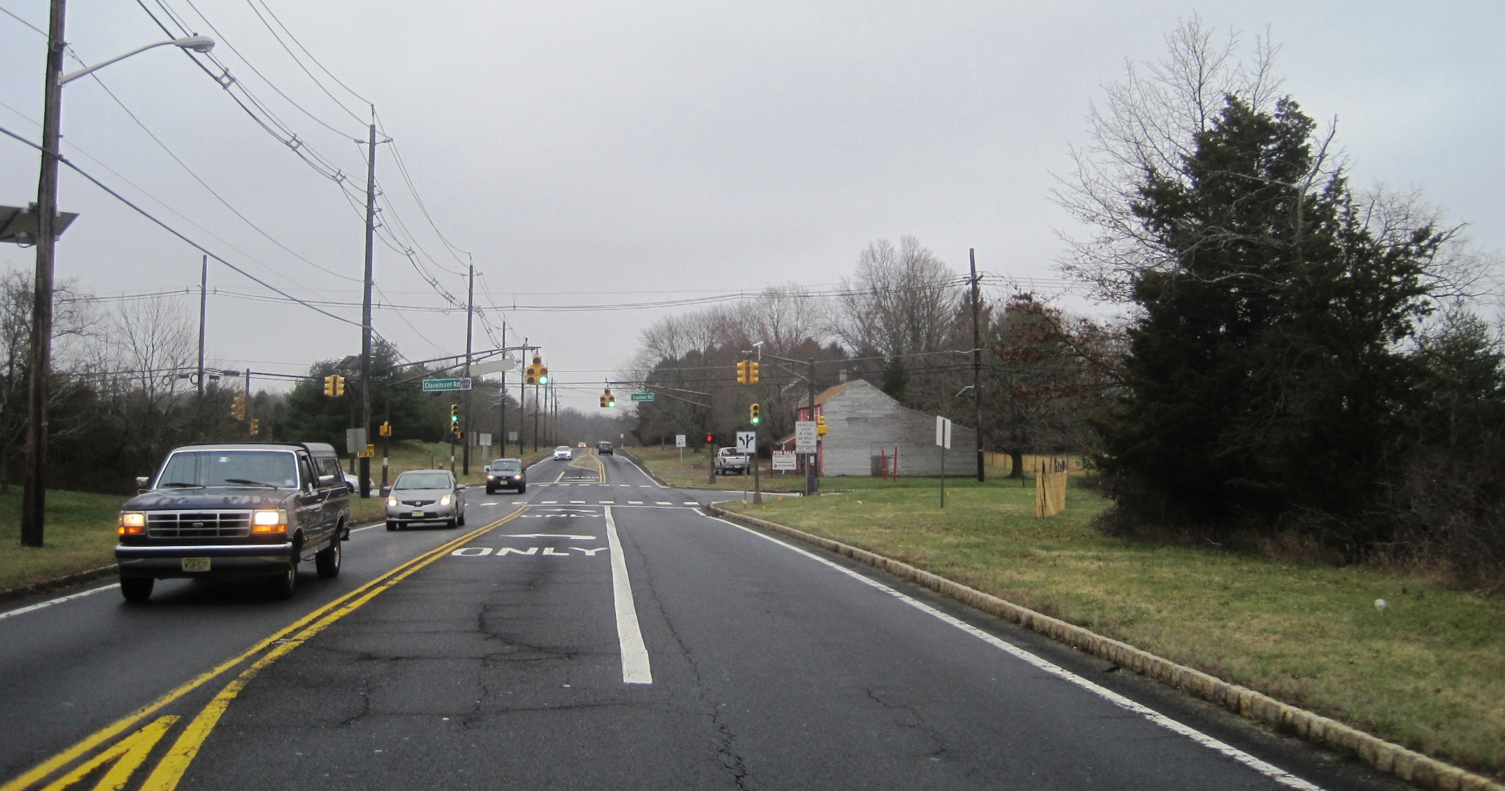 Photo of the census designated place of Pleasant Plains, New Jersey within Franklin Township, Somerset County. Photo taken on southbound Middlebush Road (County Route 615) approaching Claremont Road (CR 648) and Suydam Lane.